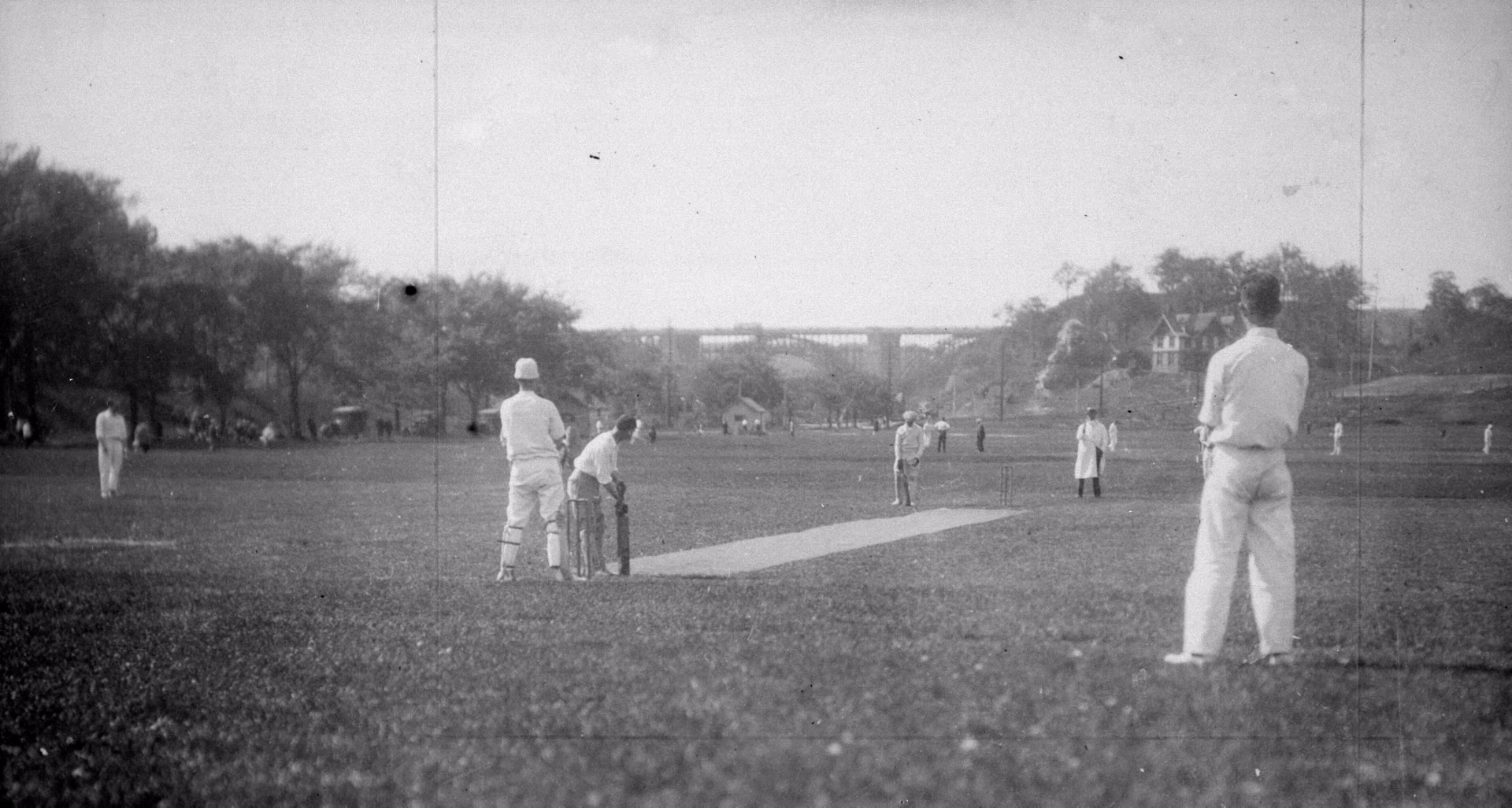 Cricket on a Saturday in the "flats" in the Don Valley. One of a group of prints, most of which appeared in The Globe newspaper, Toronto, 1922-4. Toronto, Ontario, Canada.